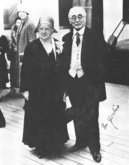 Inazo Nitobe (1862-1933) and Mary Elkinton (1857-1938